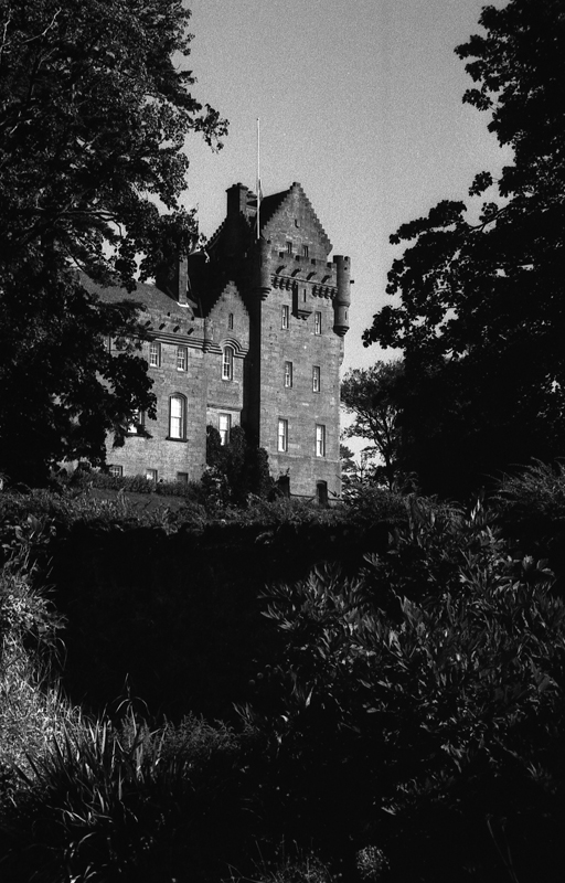 Brodick Castle, Isle of Arran, Scotland.